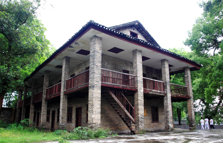 a building related to the 1905 Lienchow Incident in Kwangtung 粵語: 1905年連州教案相關建築物